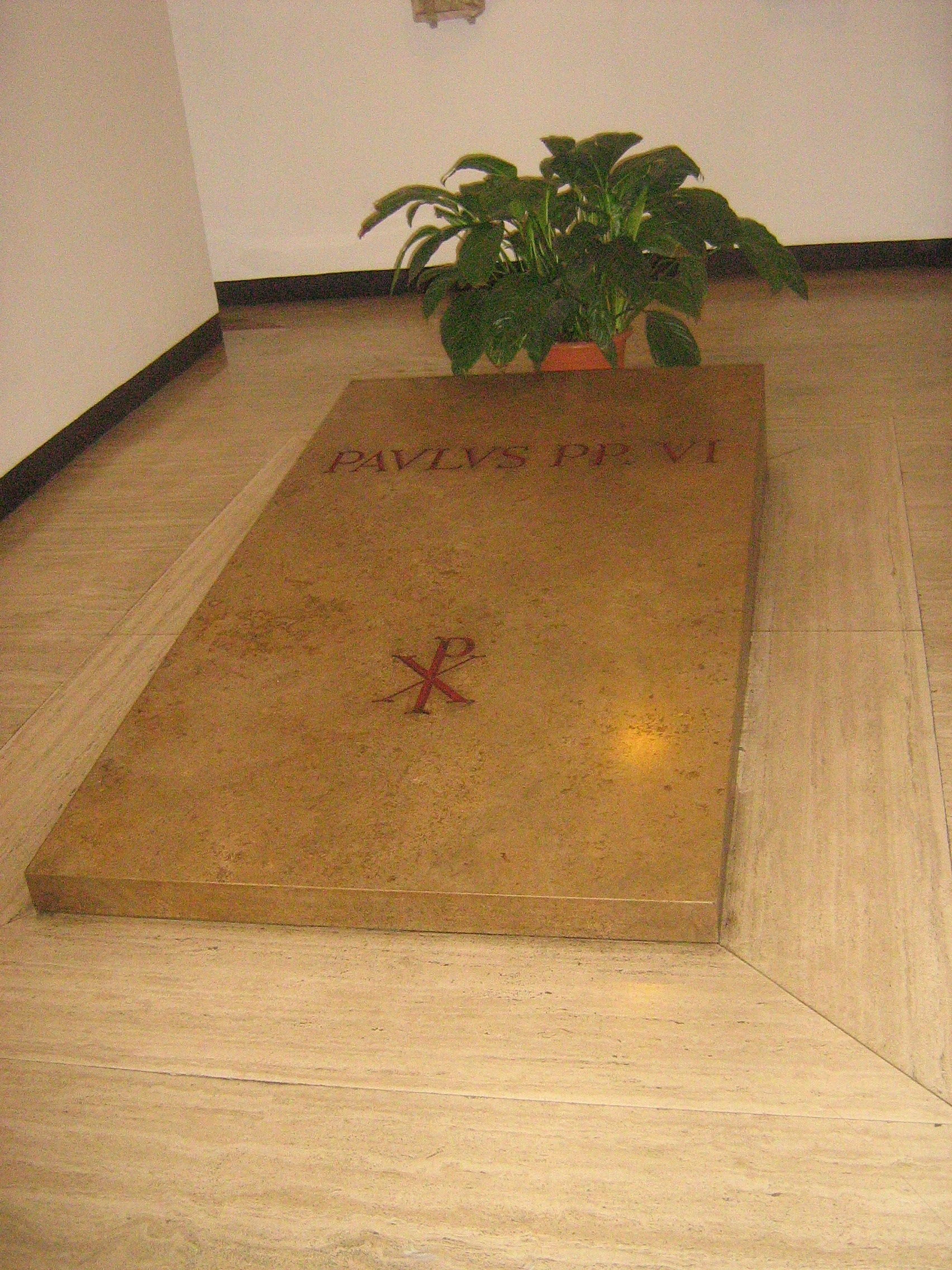 The gravestone of the Pope Paul VI in basements of the St. Peter's Basilica in Rome